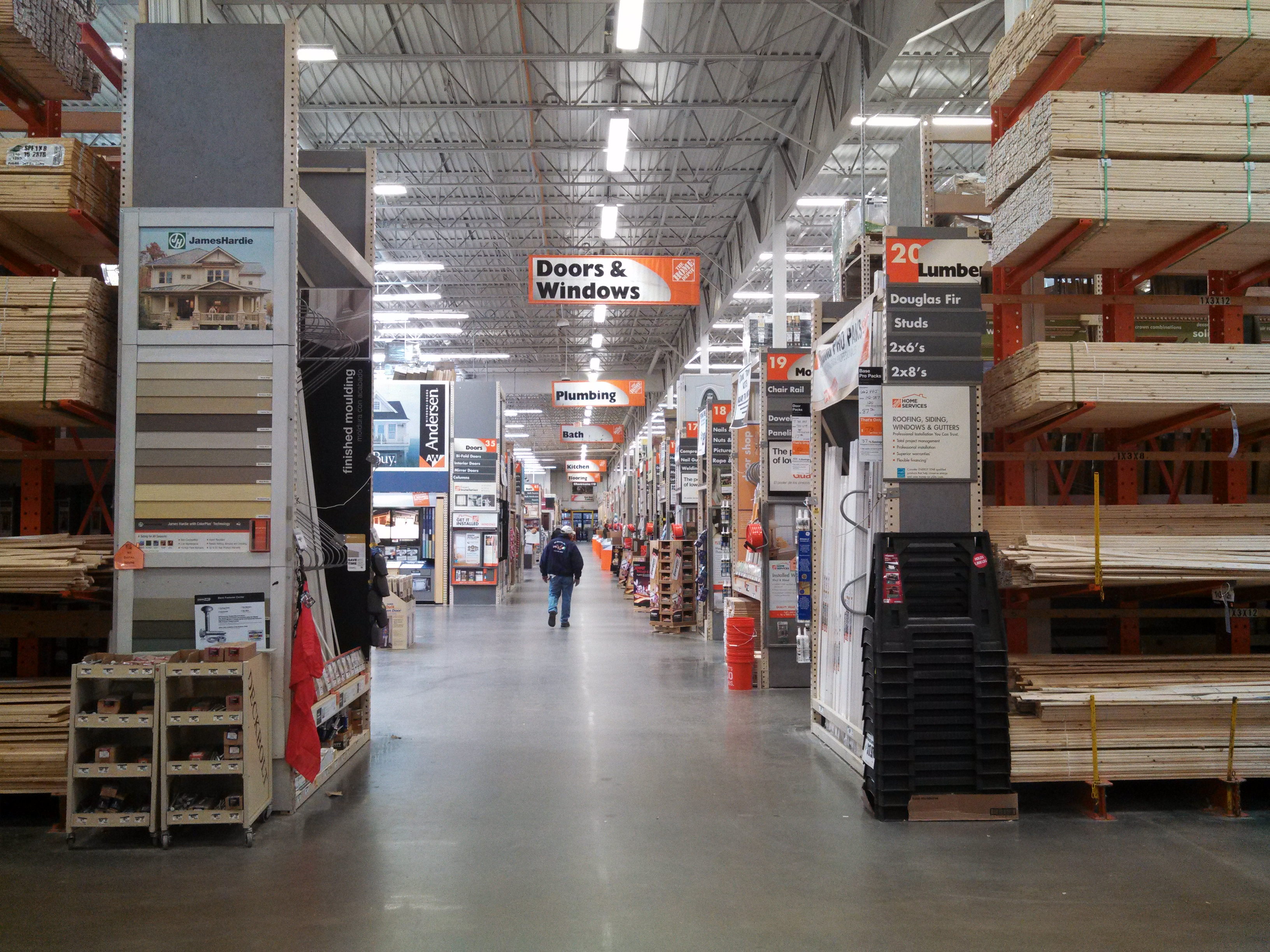 Home Depot, center aisle, Natick Massachusetts - 2014